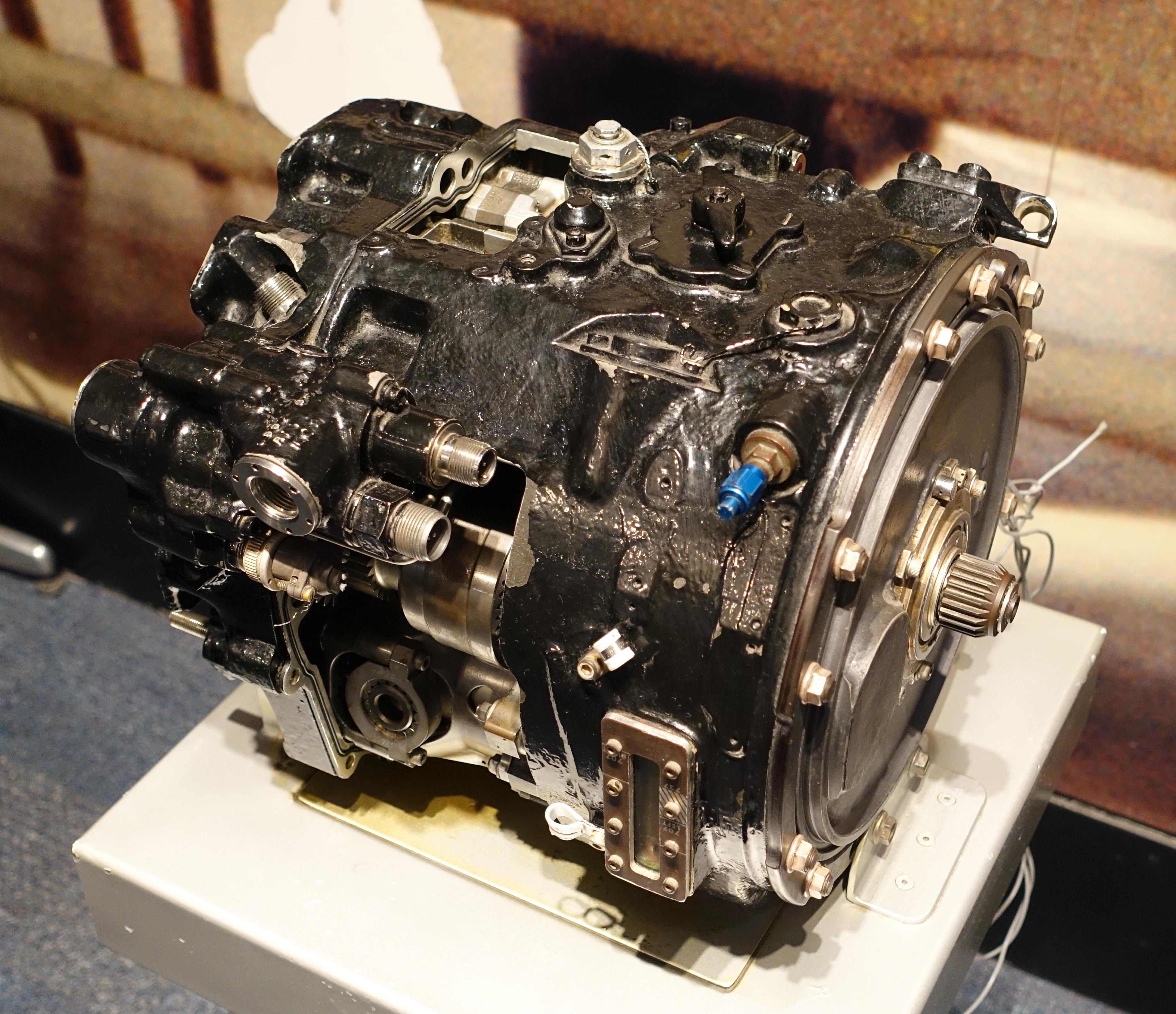 Exhibit in the Museum of Science and Industry, Chicago, Illinois, USA.